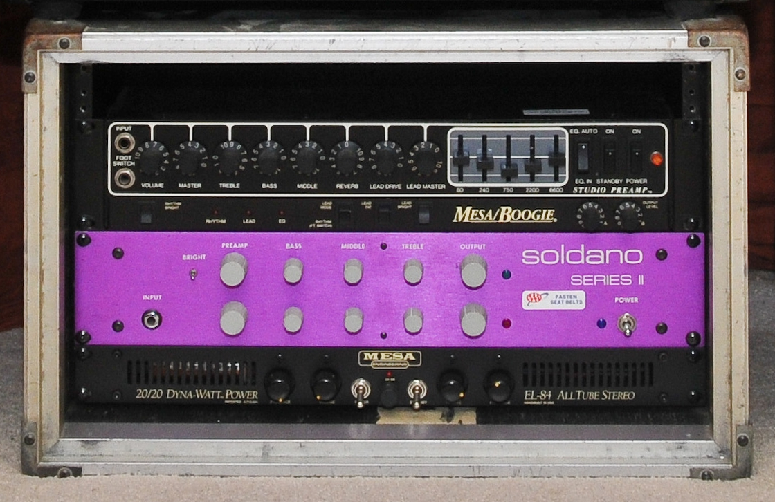 Mesa Boogie Studio Preamp Soldano SP-77 Preamp Mesa 20/20 Power Amp from Mesa Boogie Amp Collection by art-sarah